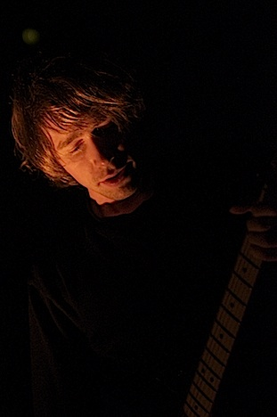 Mew singer Jonas Bjerre - Live in Concert (photo by Scott Dudelson)